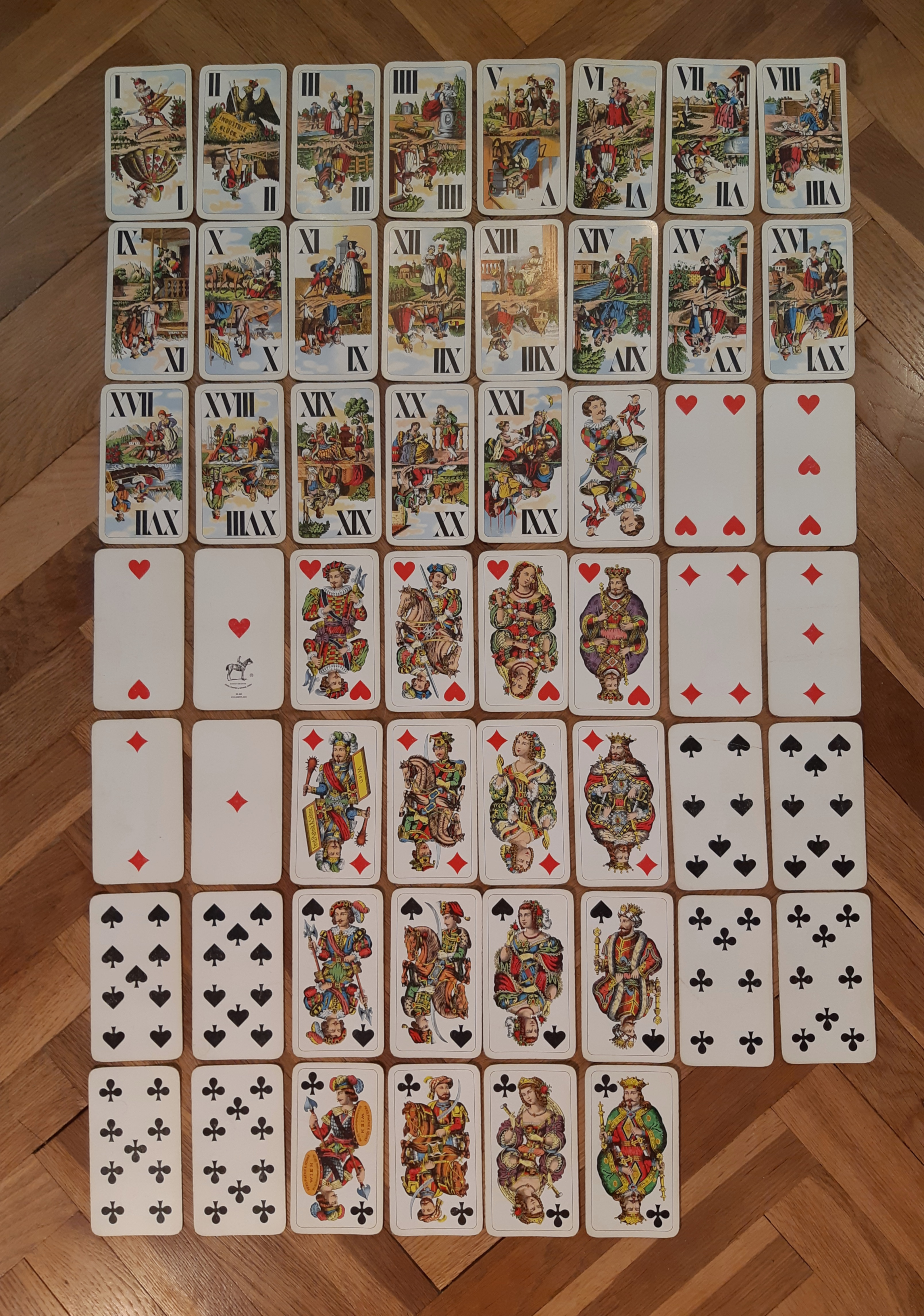 whole pack of tarock cards - 54 cards